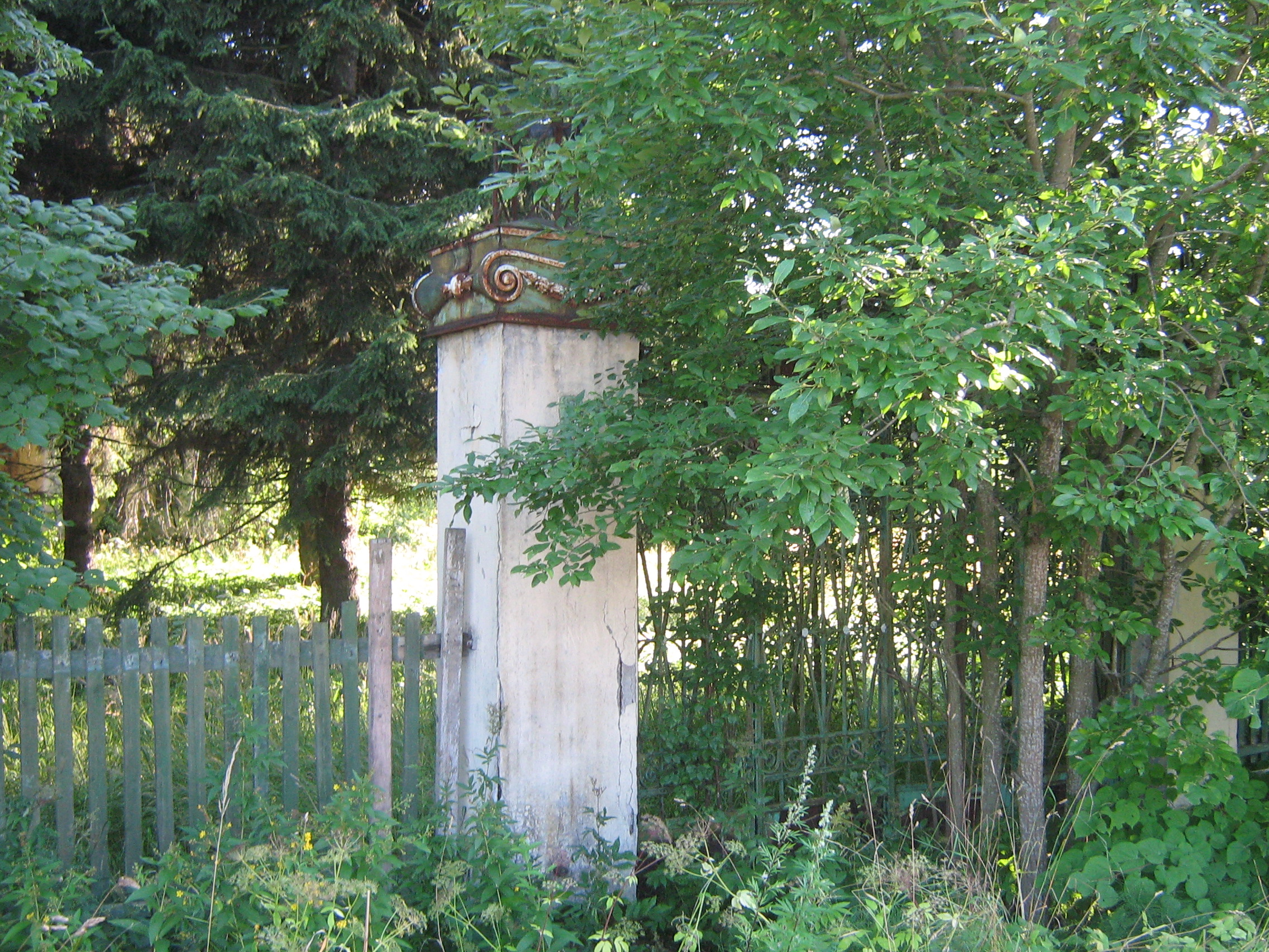 Saint Petersburg (Russia), Petergof.